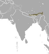 Himalayan Pika (Ochotona himalayana) range